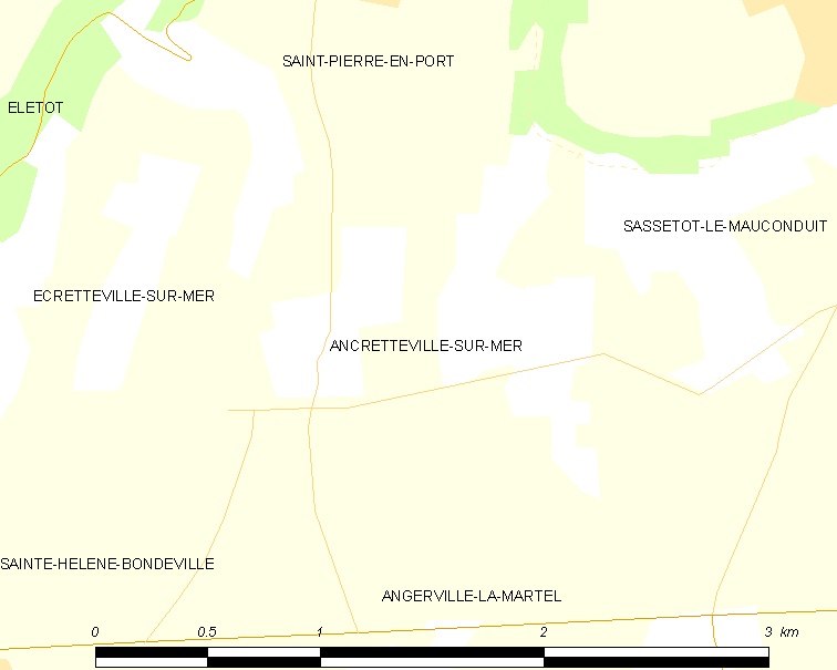 Map of French municipality Ancretteville-sur-Mer